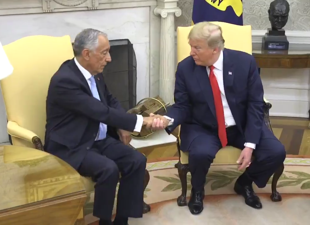 Portuguese President Marcelo Rebelo de Sousa and POTUS Donald Trump in the Oval Office, 27 June 2018.